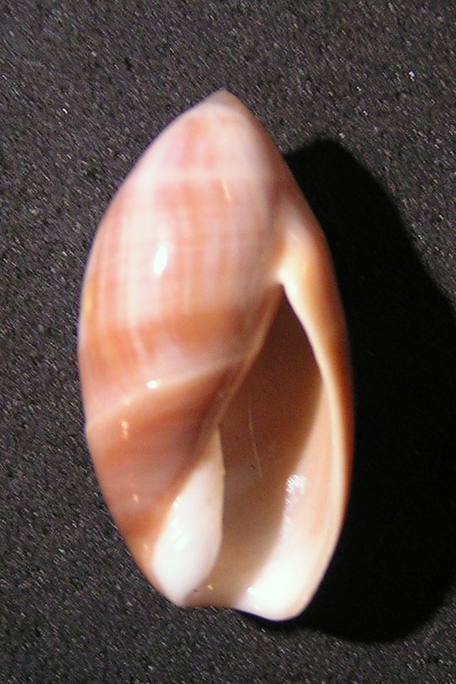 Ancilla ventricosa (Lamarck, 1811); family Olividae; Madagascar